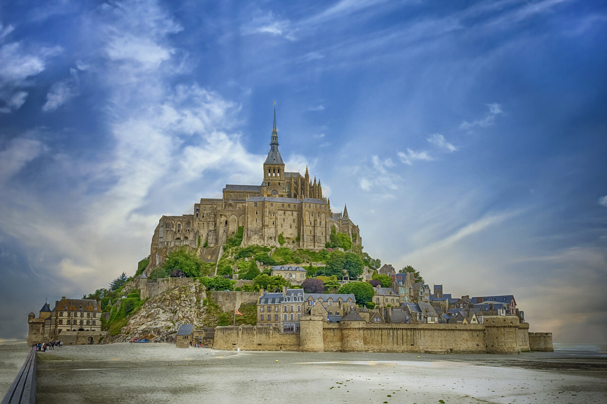 copyright: Marian Baciu